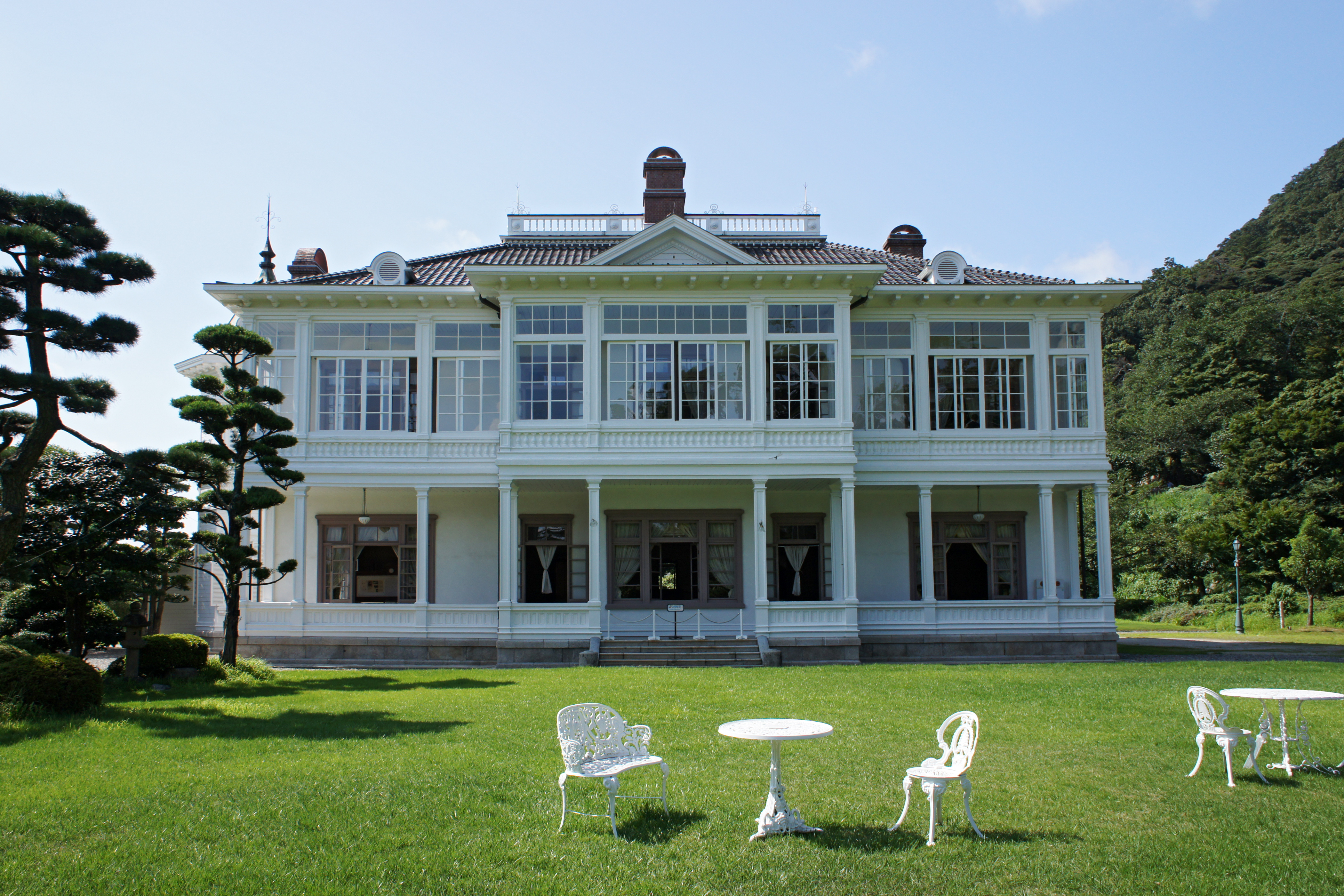 Jinpukaku in Tottori, Tottori prefecture, Japan